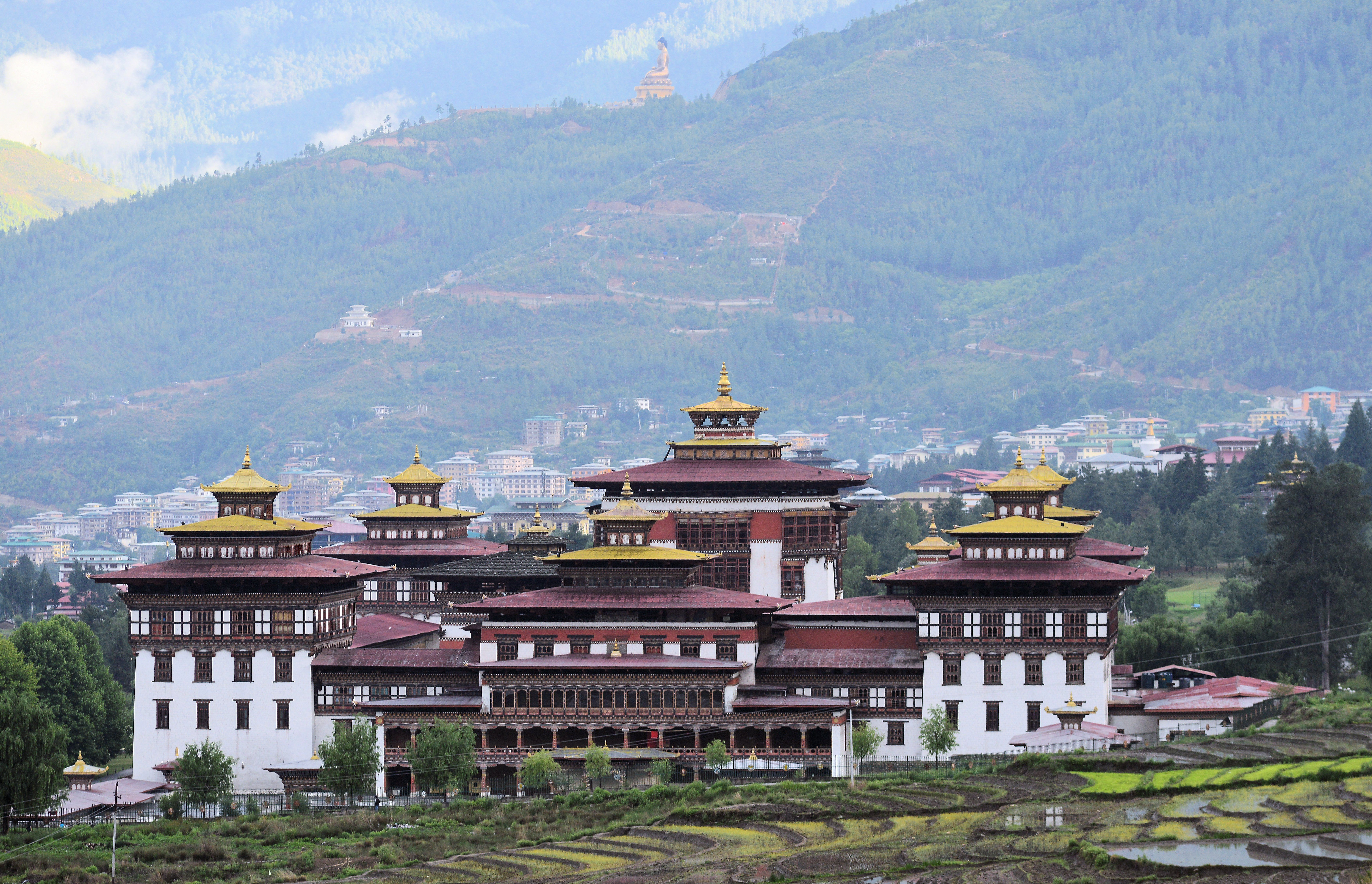 North side of Tashichodzong